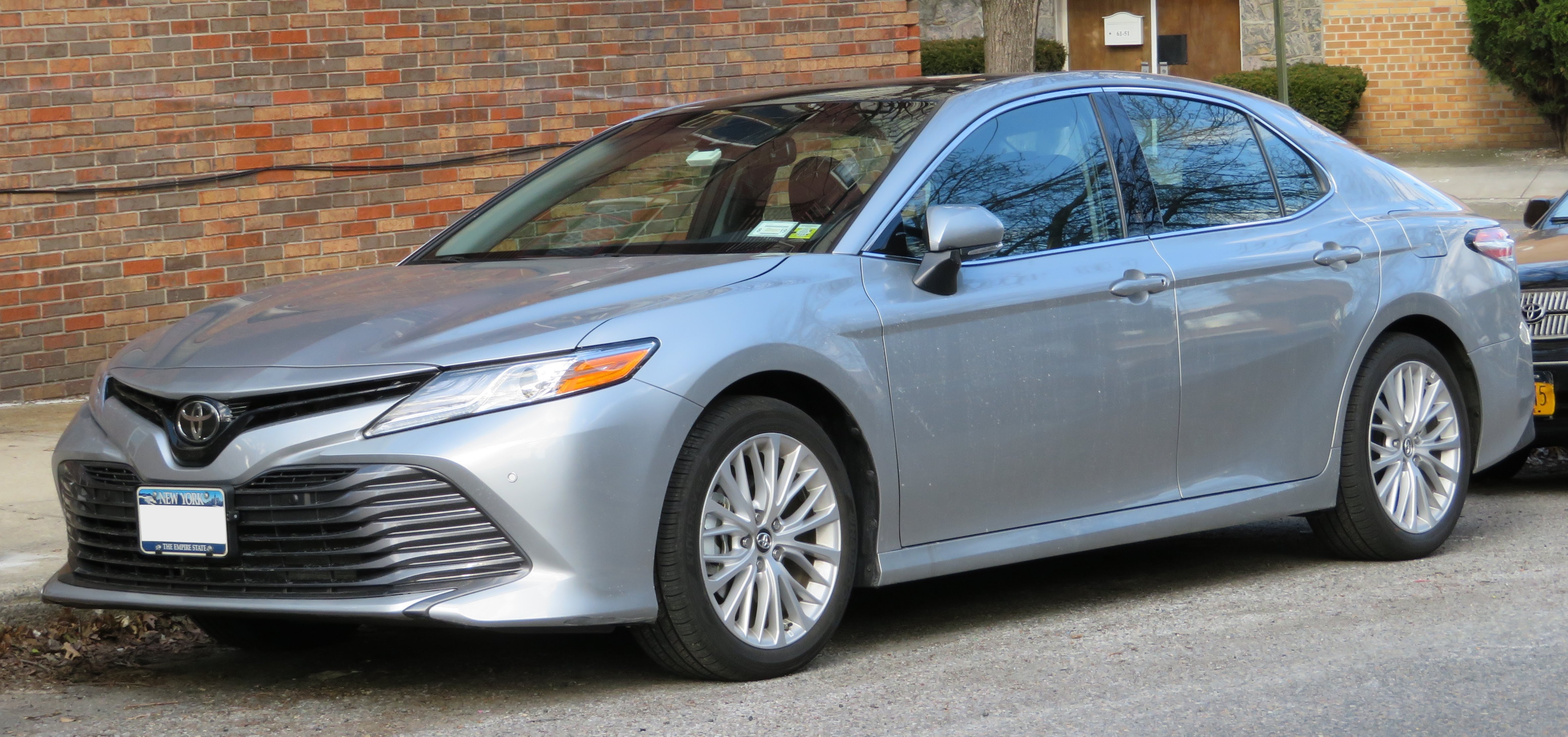 In Queens, New York.